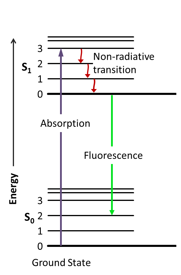 Jablonski diagram of absorbance, non-radiative decay, and fluorescence.